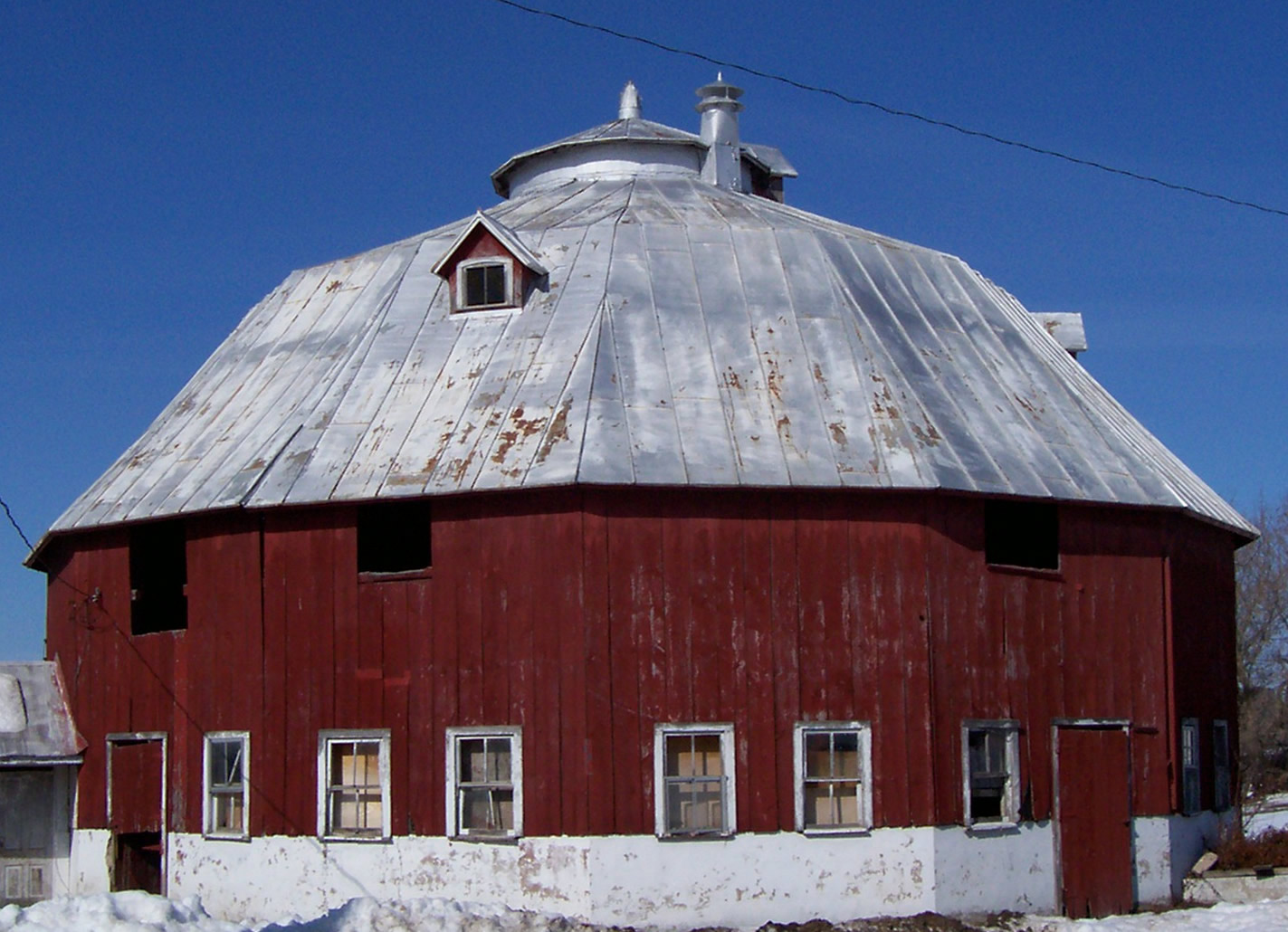 A ten sided barn in Juneau County, Wisconsin, USA near Mauston. Taken March 11, 2007 by myself. Cropped from original.